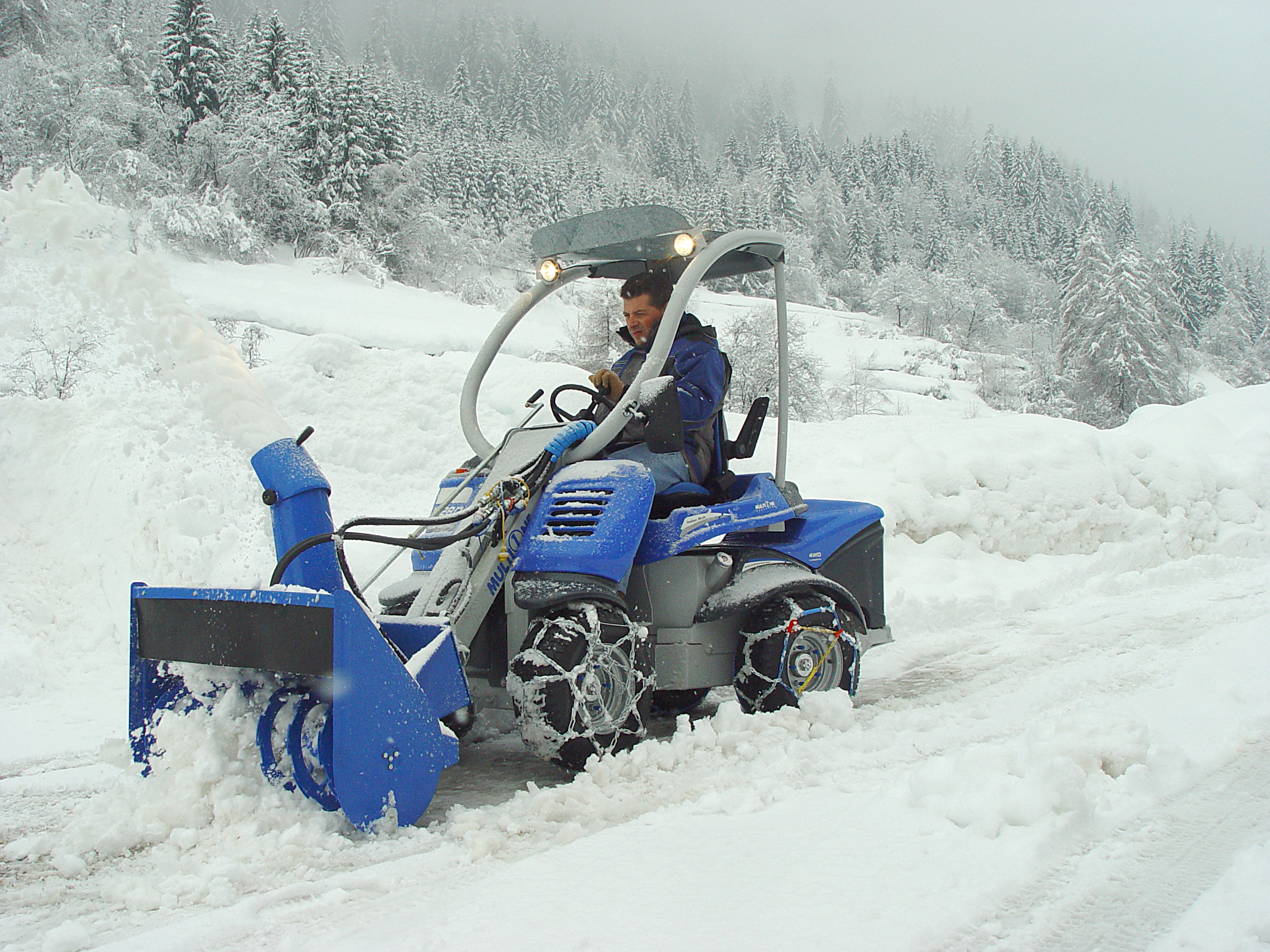 Multione M28D equipped with the snow turbine